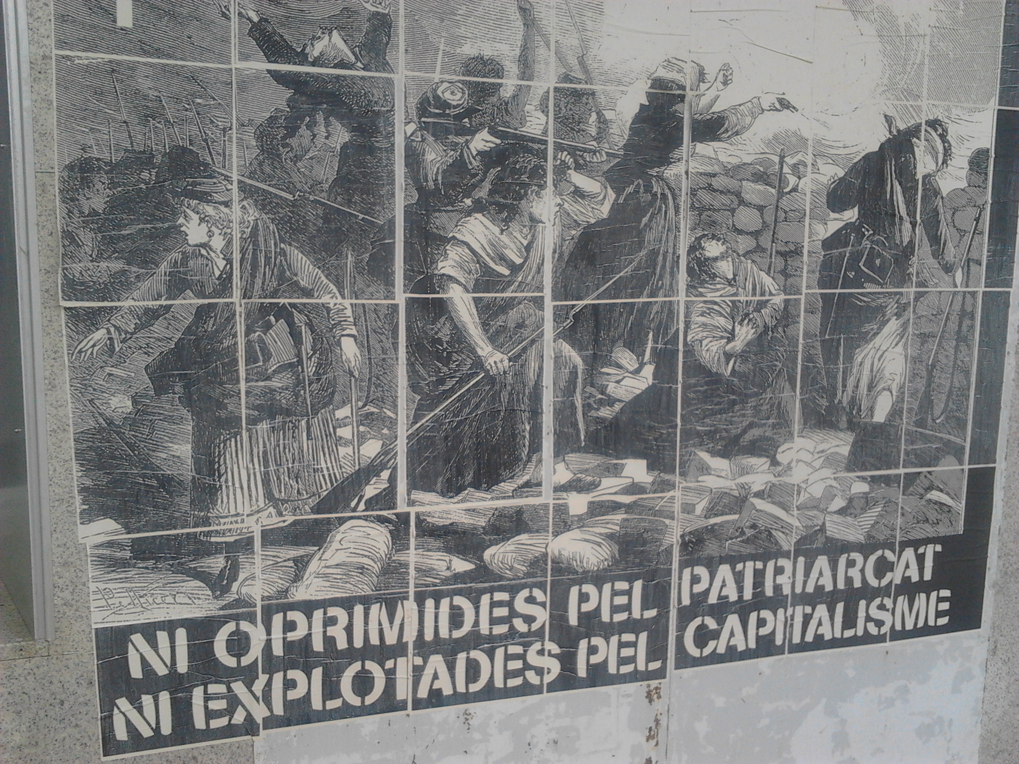 Wallpaper at Jaume I's building playground at Ciutadella campus from University Pompeu Fabra against patriarchy and capitalism.